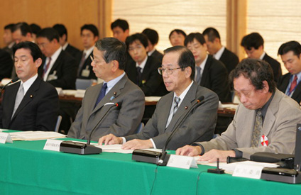 Yasuo Fukuda, Prime Minister, attended a meeting of the Central Council on Promotion of Measures for Persons with Disabilities, Cabinet Office at the Prime Minister's Official Residence in Chiyoda Ward, Tōkyō Metropolis on October 29, 2007.